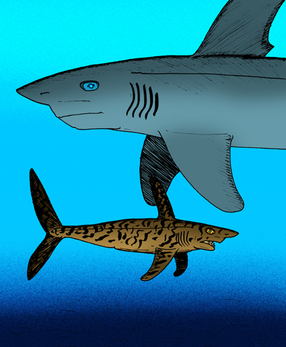 Comparison of the eugeneodontid holocephalid chondrichthyids Helicoprion and Sinohelicoprion changhsingensis.